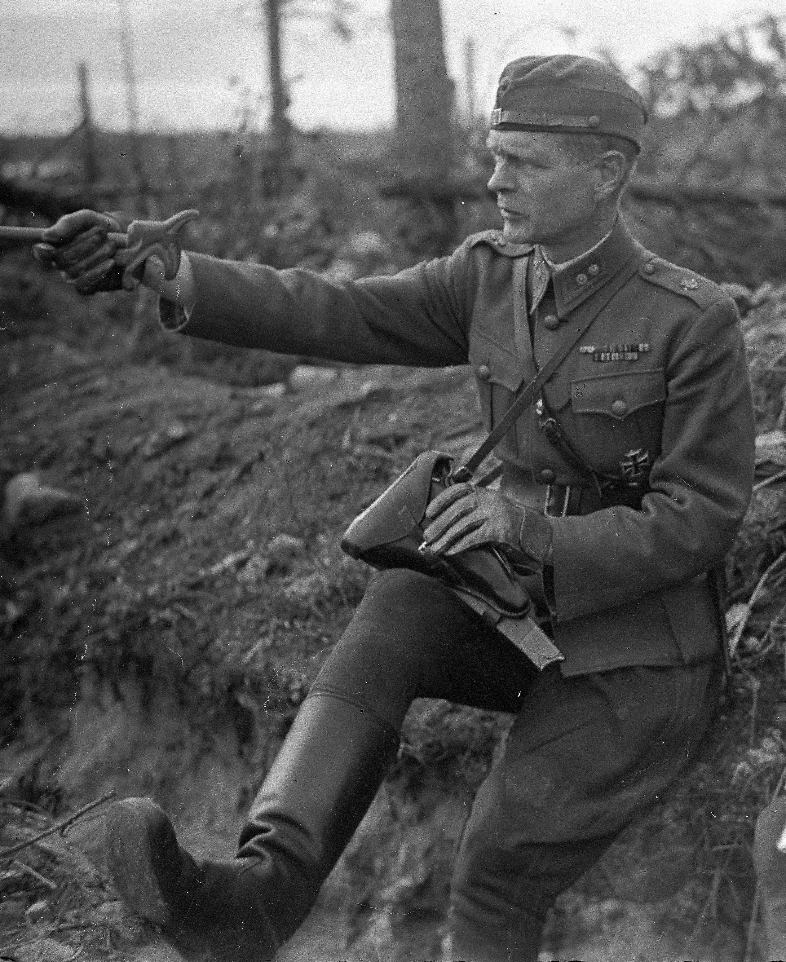 Lieutenant Colonel, commander of JR 44 Ilmari Rytkönen in Nietjärvi on 17 September 1944.